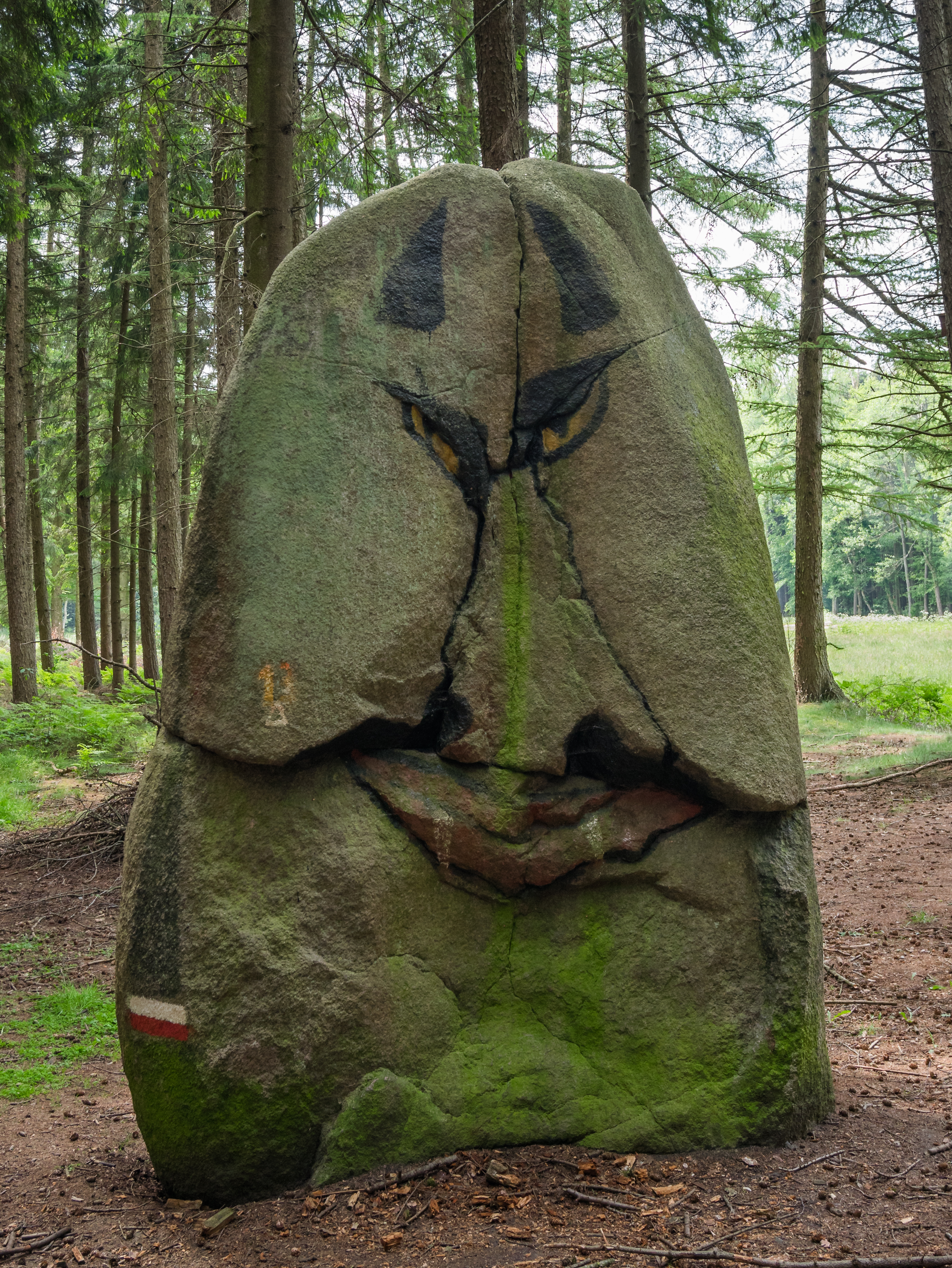 Süntelstein - a menhir in the woods. Belm-Vehrte, Osnabrück Land, Lower Saxony, Germany